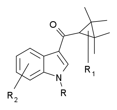 General structure of tetramethylcyclopropanoylindoles